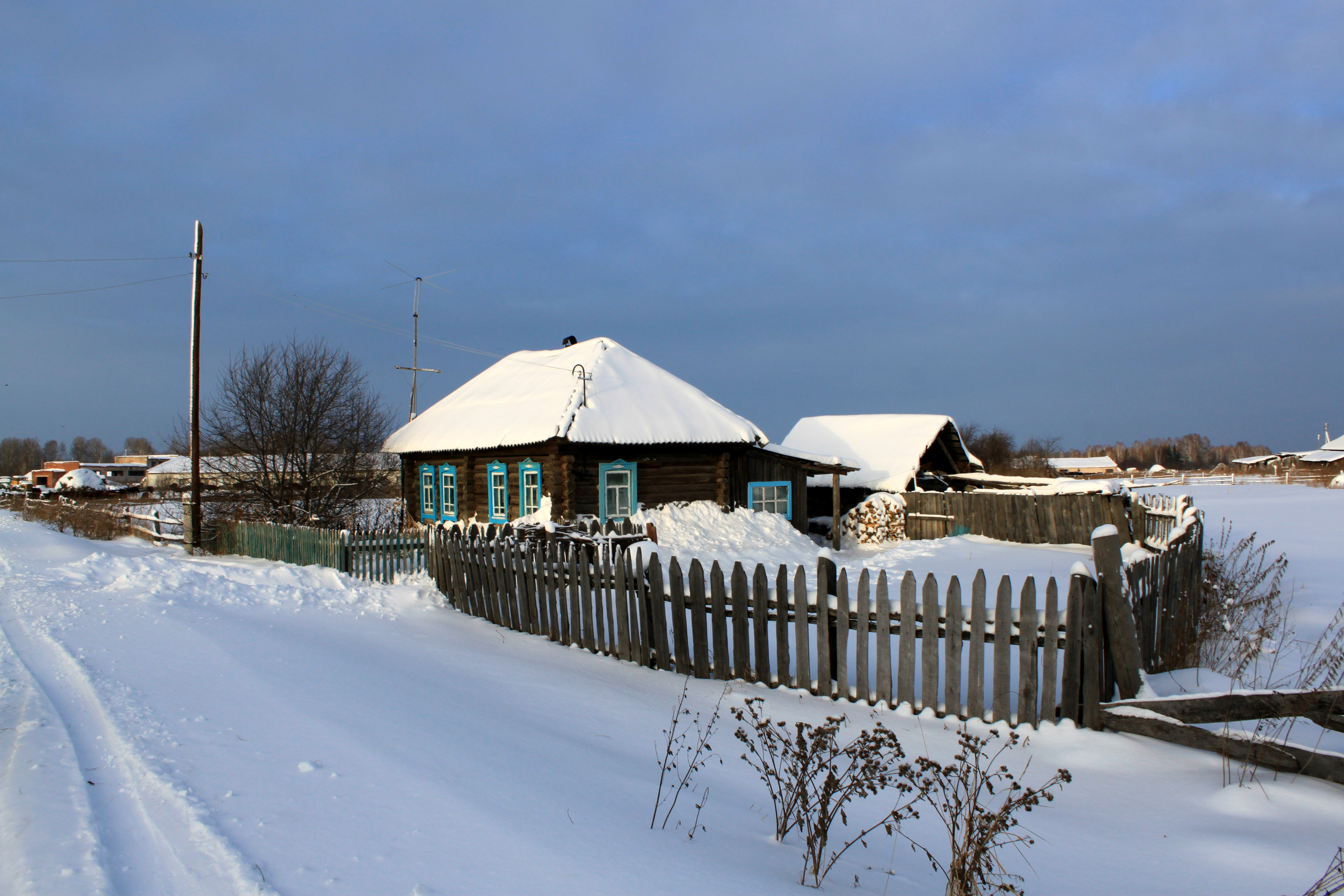 Butakovo